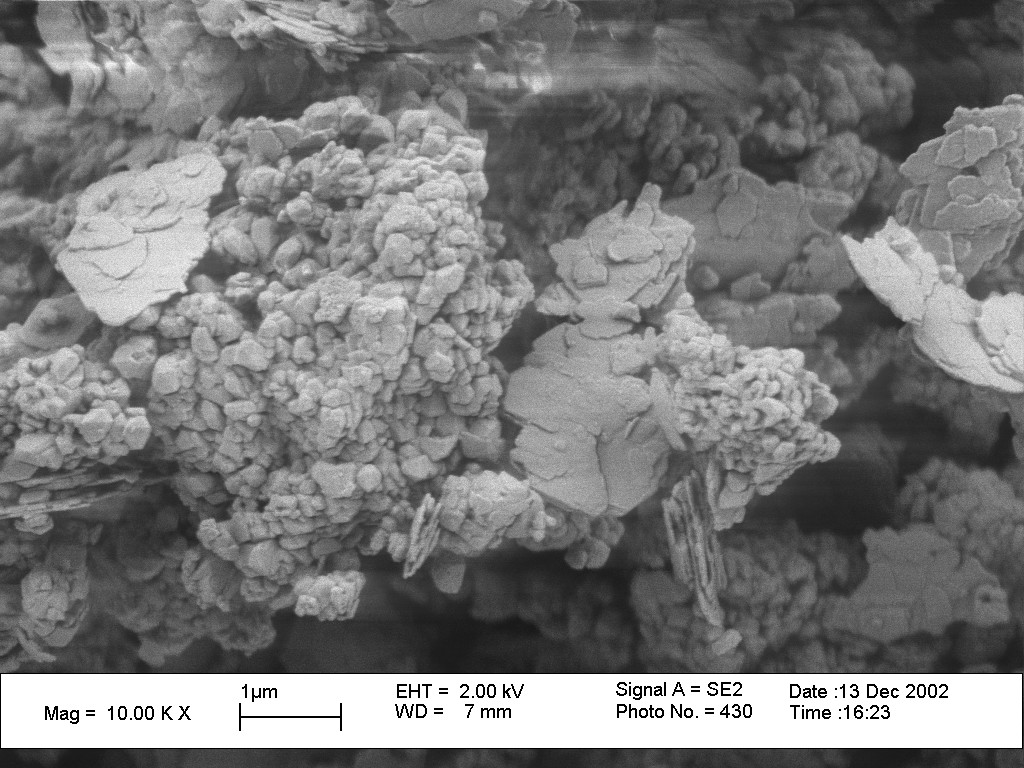 Close look at the structure of Neuburg Siliceous Earth with a Scanning Electron Microscope